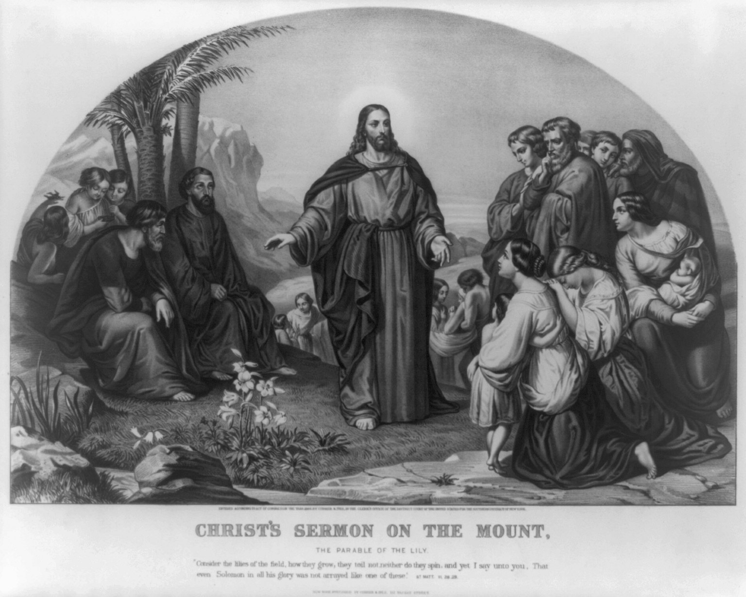 Title: Christ's sermon on the mount: The parable of the lily Abstract/medium: 1 print : lithograph.